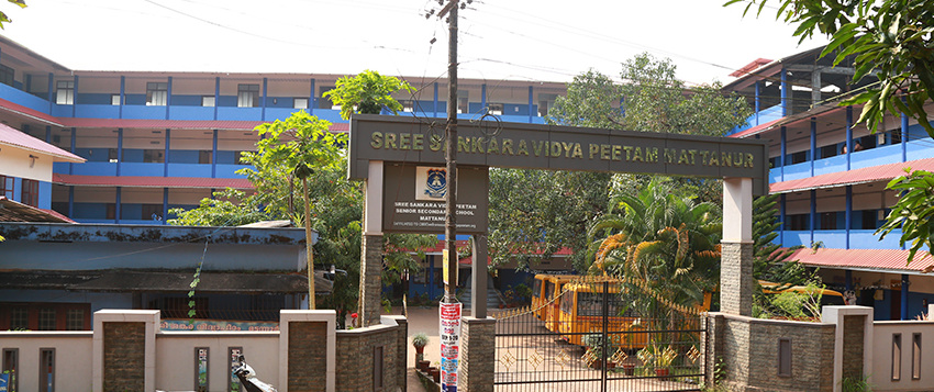 Sree Sankara Vidya Peetam, CBSE School